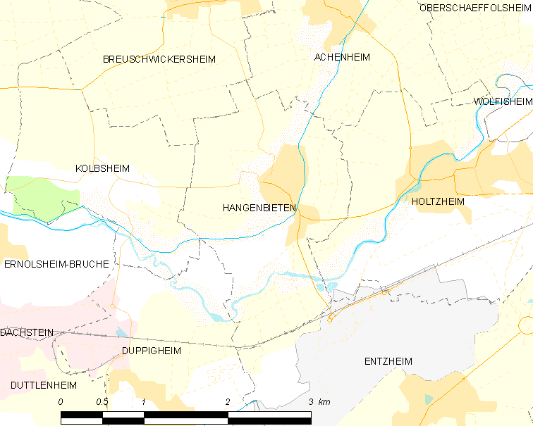 Map of French municipality